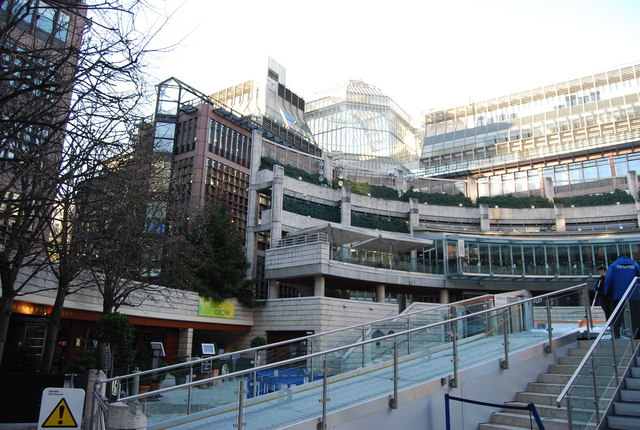 Broadgate Circus